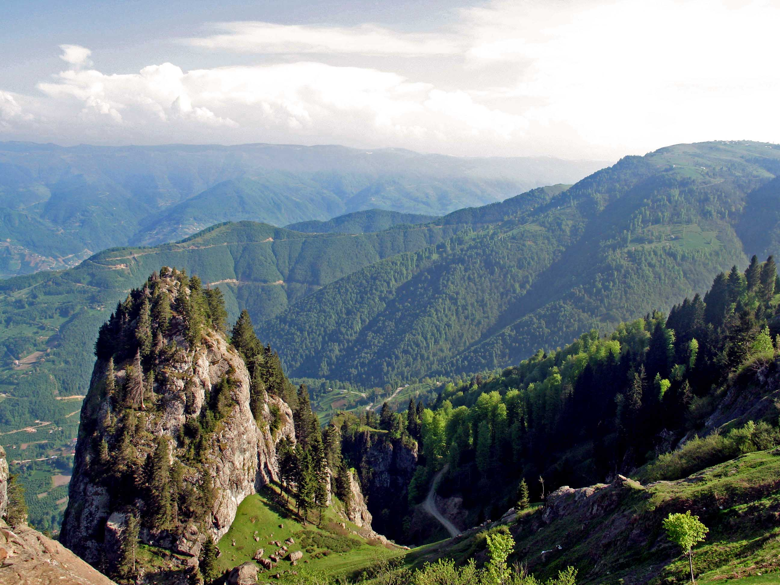 Pontic Mountains near Trabzon